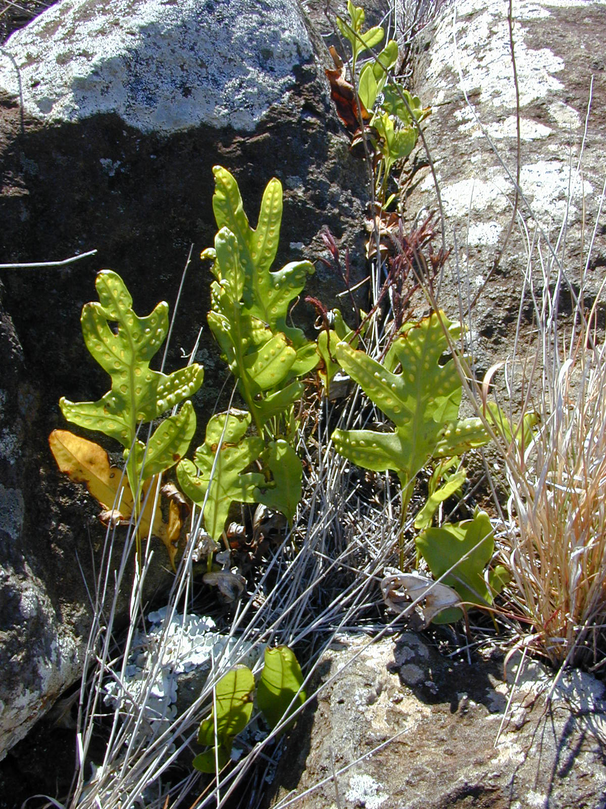 Phymatosorus grossus (habit). Location: Kahoolawe, Puu moa ulaiki